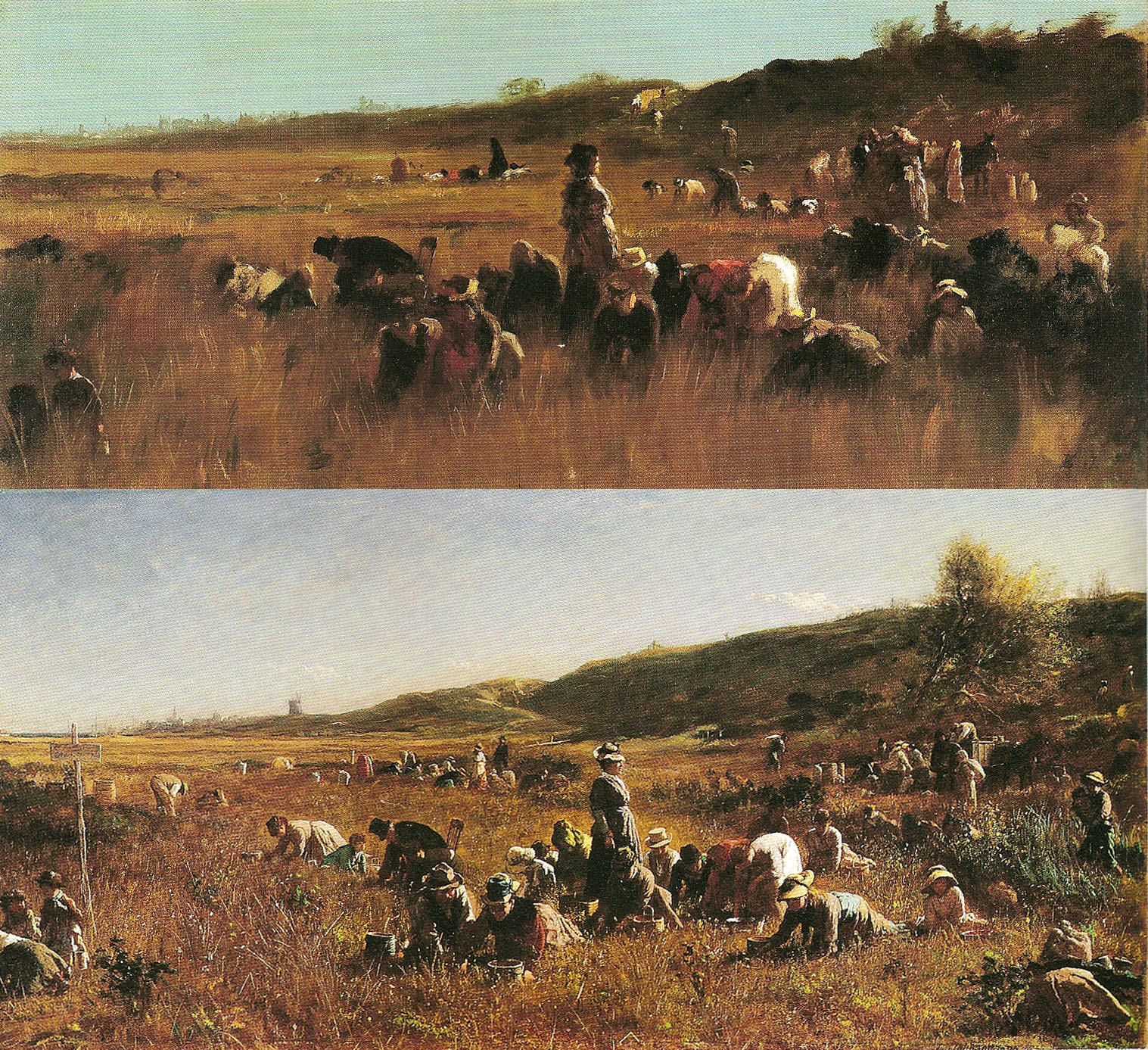 Eastman Johnson - Cranberry Pickers, Nantucket, Oil on on canvas - 19 x 43.5 in - 1879 - Scanned from Eastman Johnson: Painting America -- fig 59 - pg 102 Eastman Johnson - The Cranberry Harvest, Island of Nantucket - Oil on on canvas - 27.375 x 54.5 in - 1880 - Scanned from Eastman Johnson: Painting America - fig 60 - pg 103